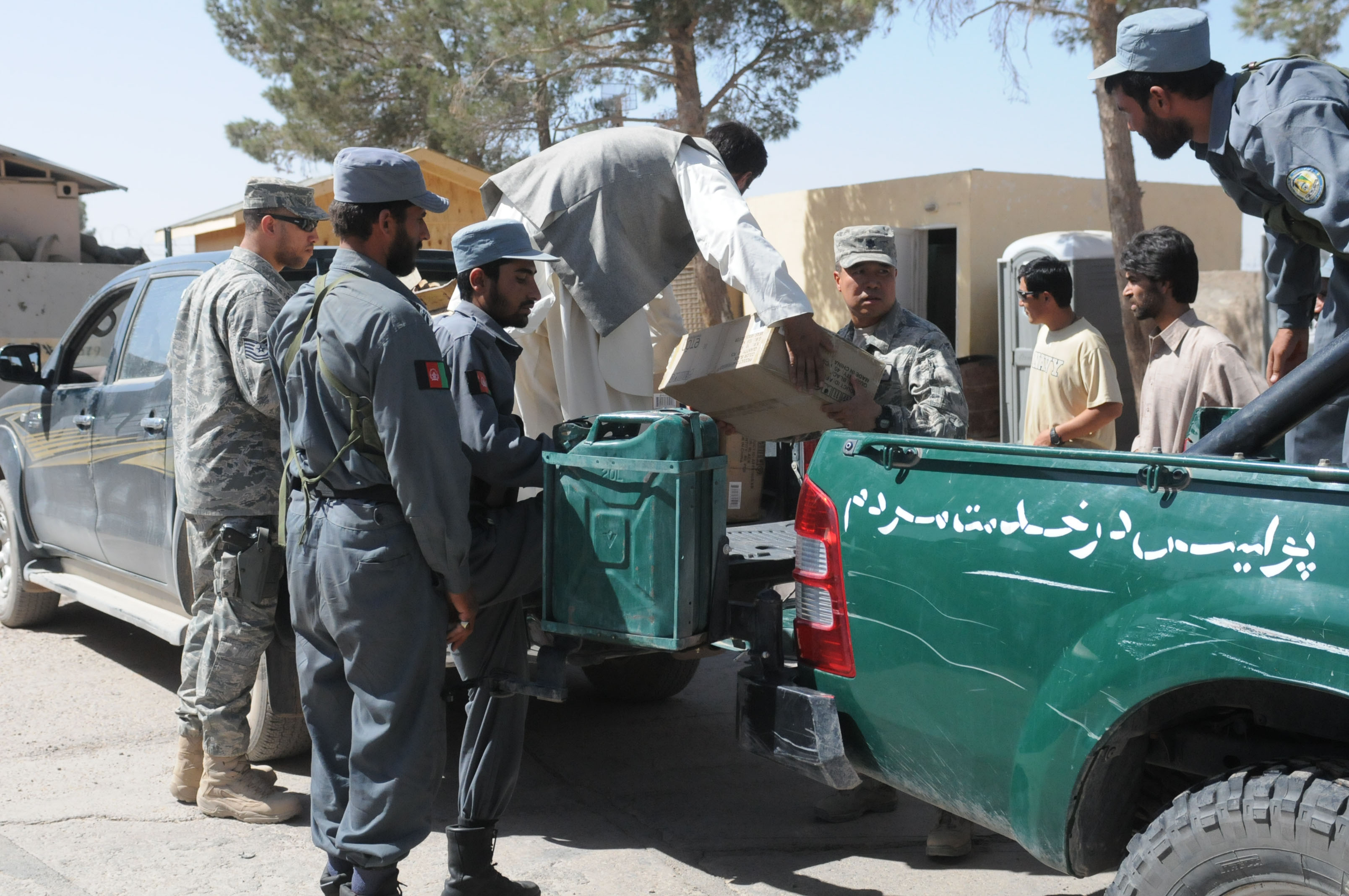 Shindand Air Base, Afghanistan –Members of the Afghan National Police load their vehicle to help Radio Azadi, a very population radio station in Afghanistan, distribute radios to the local population, so they can hear the news and be connected to the rest of the world. Much of Afghanistan is illiterate and radio is one of the main ways the Afghans can learn and see outside of their villages. (U.S. Navy photo by Mass Communication Specialist 3rd Class Jared E. Walker/ RELEASED).